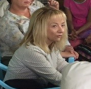 Photograph of Nola Marino speaking with young people in rural Myanmar